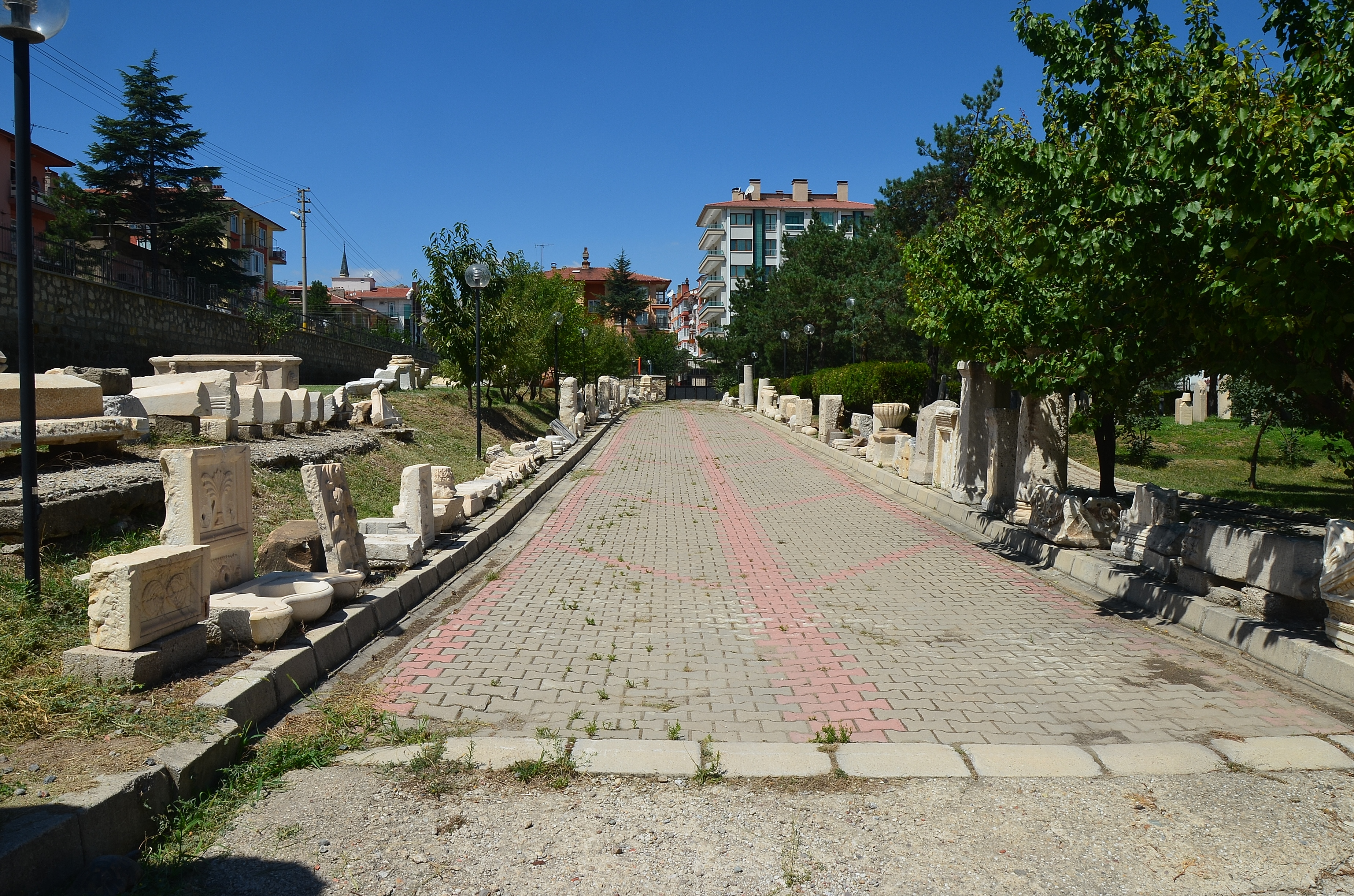 Open-air exhibition of sculptures at Afyonkarahisar Archaeological Museum in Afyonkarahisar, Turkey